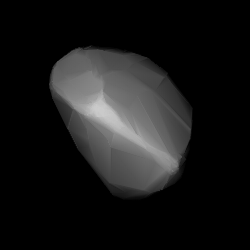 3D convex shape model of 1486 Marilyn, computed using light curve inversion techniques. J. Hanuš, J. Ďurech, M. Brož, B. D. Warner (June 2011). "A study of asteroid pole-latitude distribution based on an extended set of shape models derived by the lightcurve inversion method". Astronomy and Astrophysics 530: A134. ISSN 0004-6361. arXiv